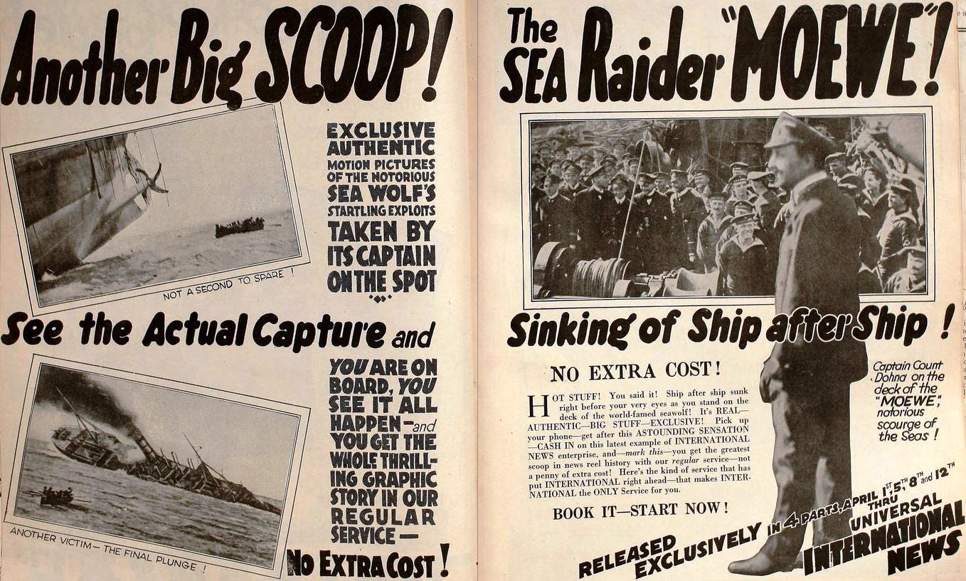 Ad for newsreel service International News featuring the Sea Raider Moeve (SMS Möve) in action as a commerce raider against other ships during World War I, to be shown in newsreels over a four week period. On pages 3218 and 3219 of the April 10, 1920 Motion Picture News. More information